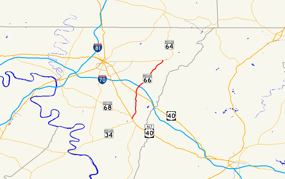 Map of Maryland Route 66